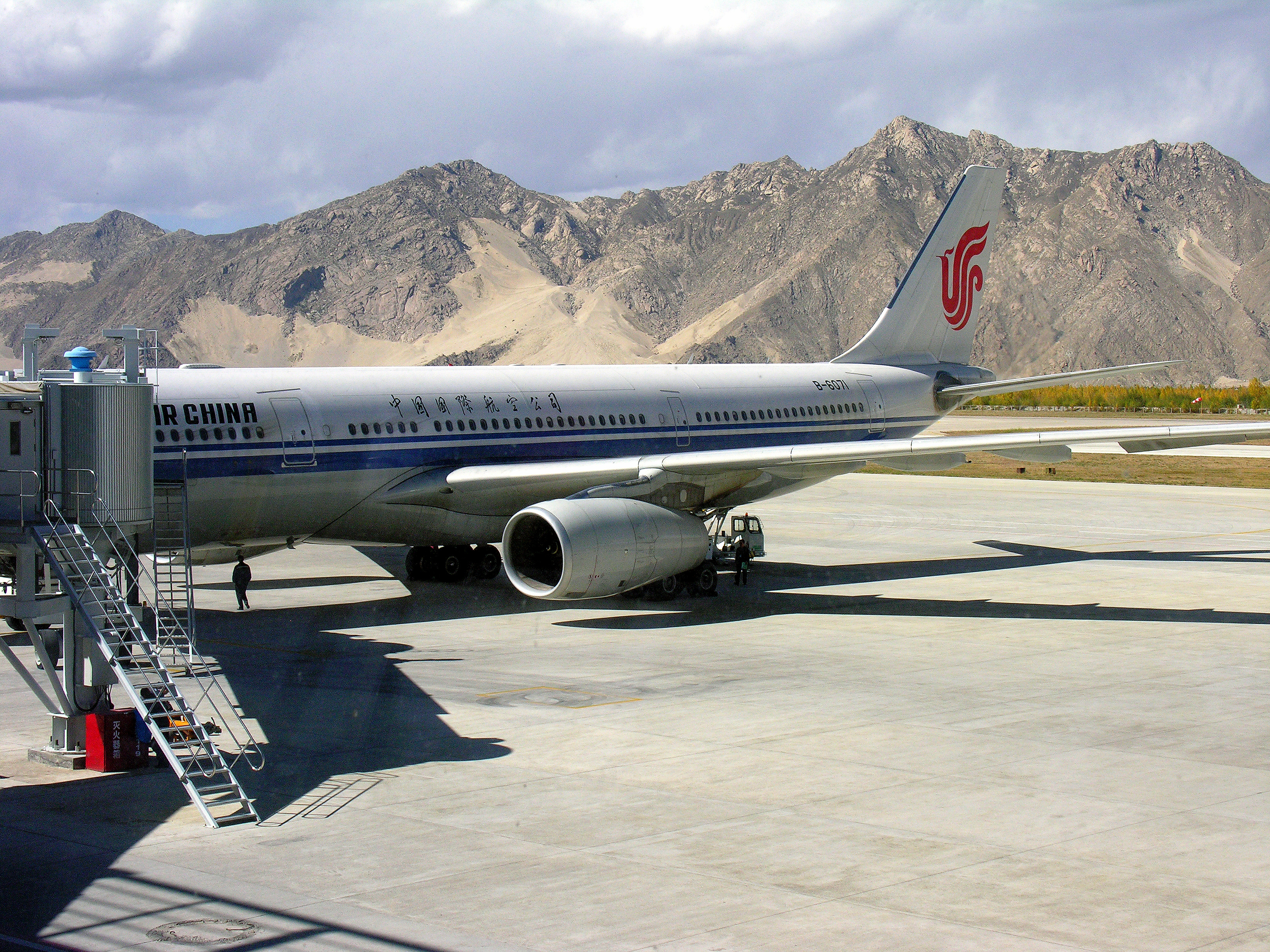 This was Air China Flight 4112 which took me to Tibet. The week before going on the trip I read on the internet that this airport was suppose to be one of the worst airports in the world to land at. The flight was great, landing smooth and went as good as any I have ever been on. Lhasa, Tibet